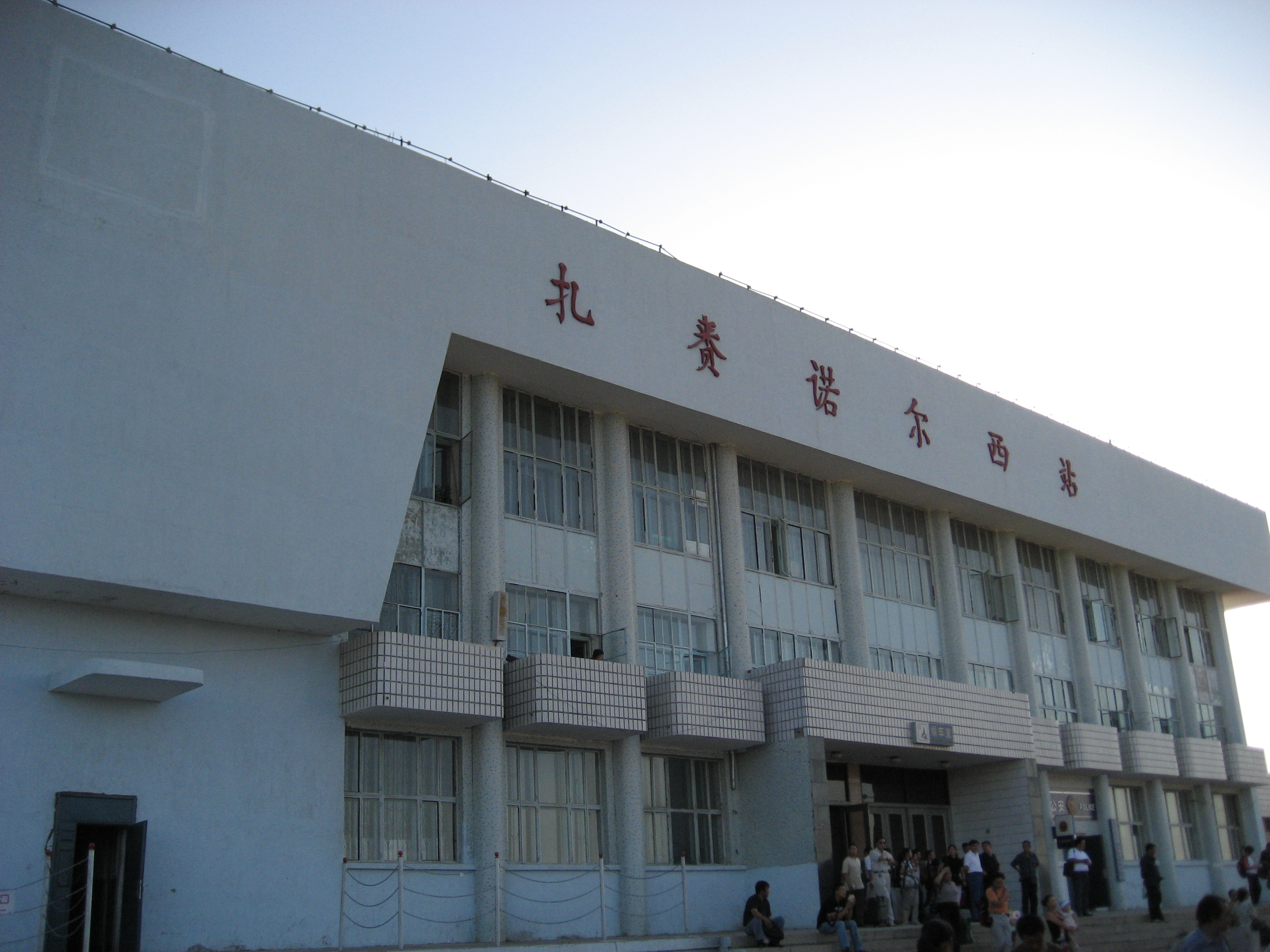 West Jalai Nur railway station